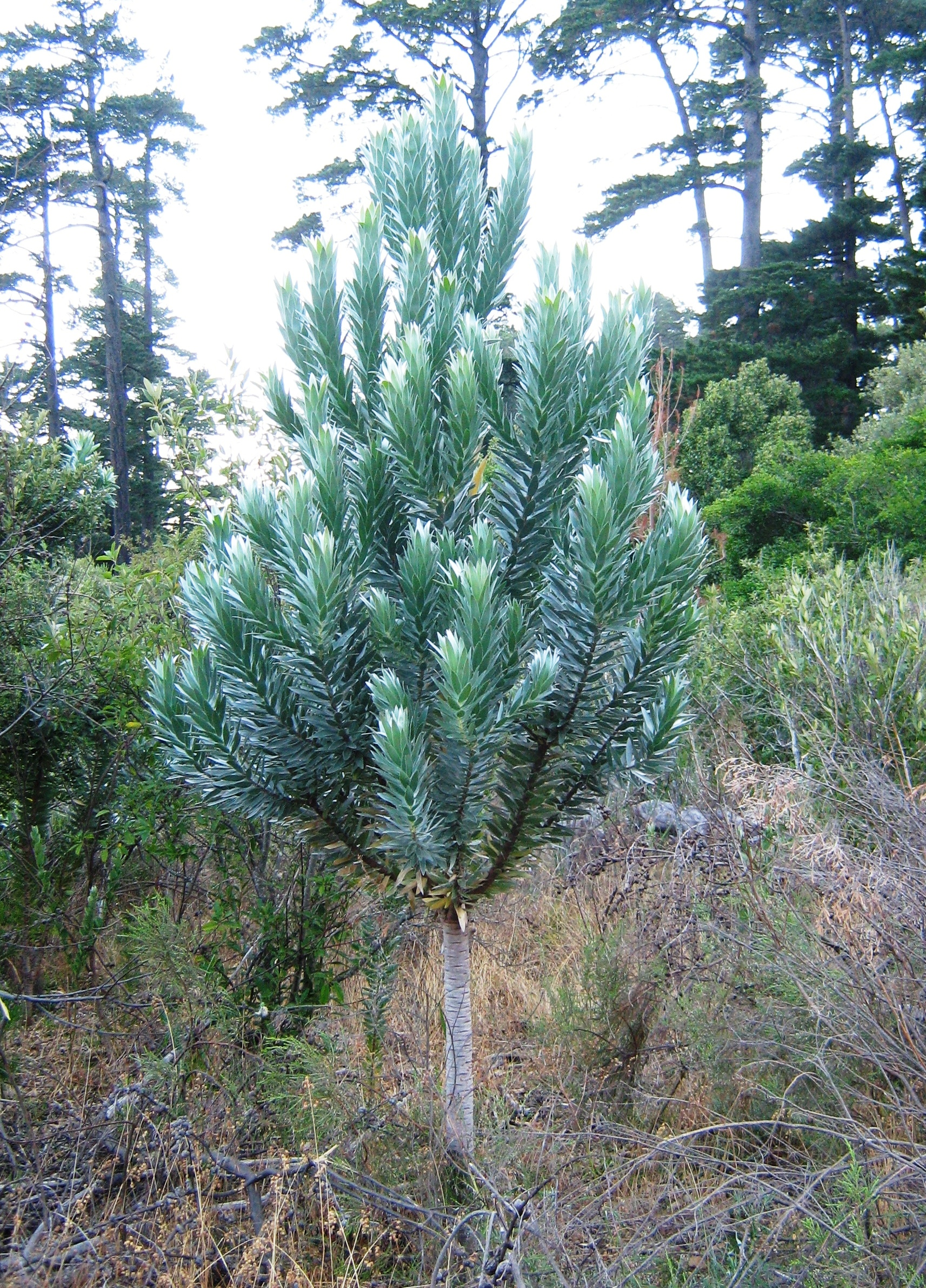 A young Silvertree growing in Newlands Forest on land recently cleared of invasive Pine plantations.